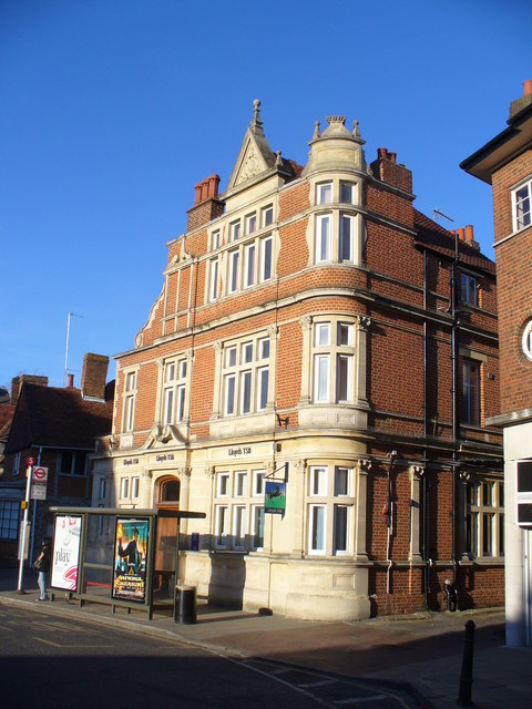 Lloyds TSB Bank. Large and imposing red brick building on North Street in central Leatherhead.